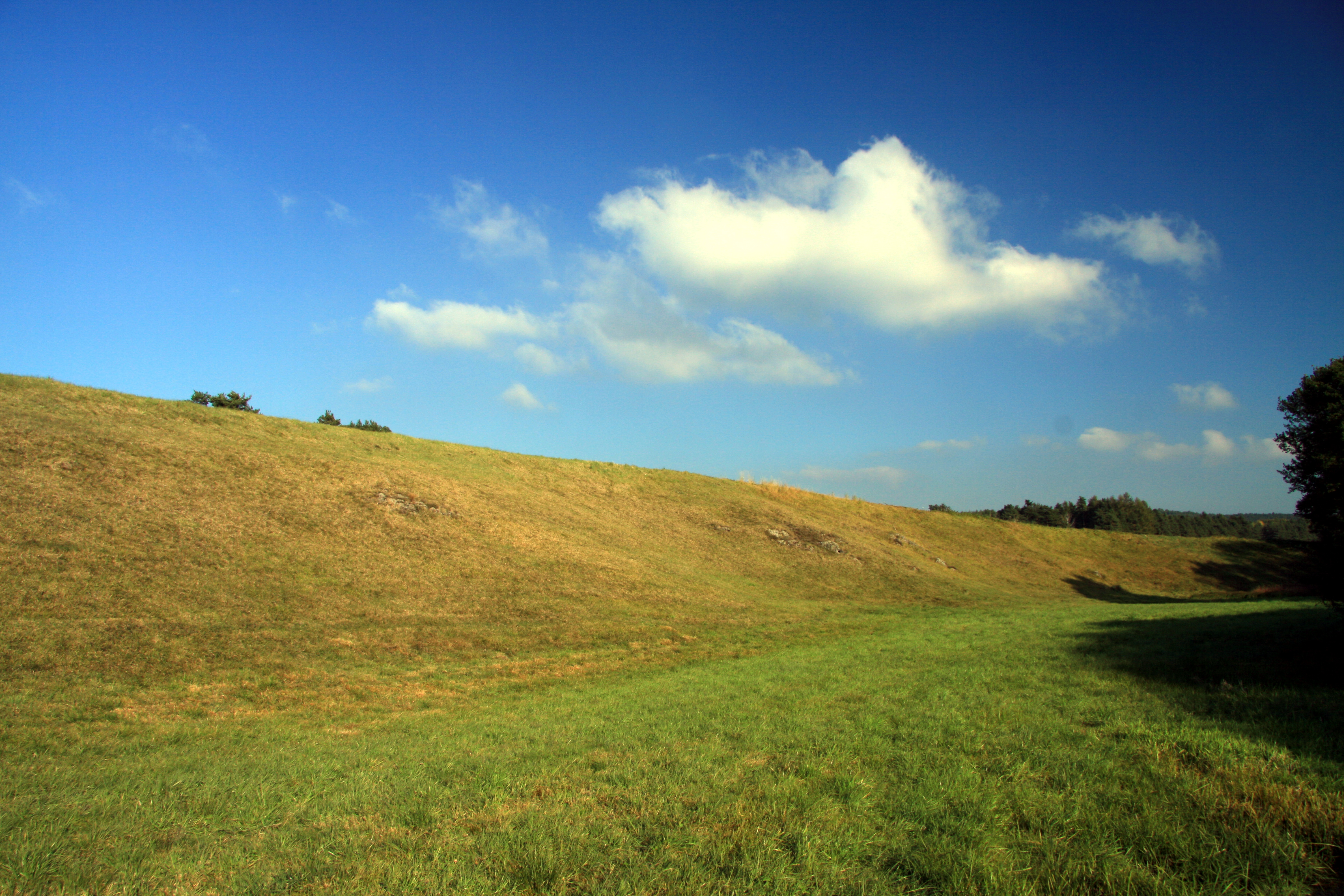 Natural monument Šimečkova stráň near Brloh village in Český Krumlov District, Czech Republic